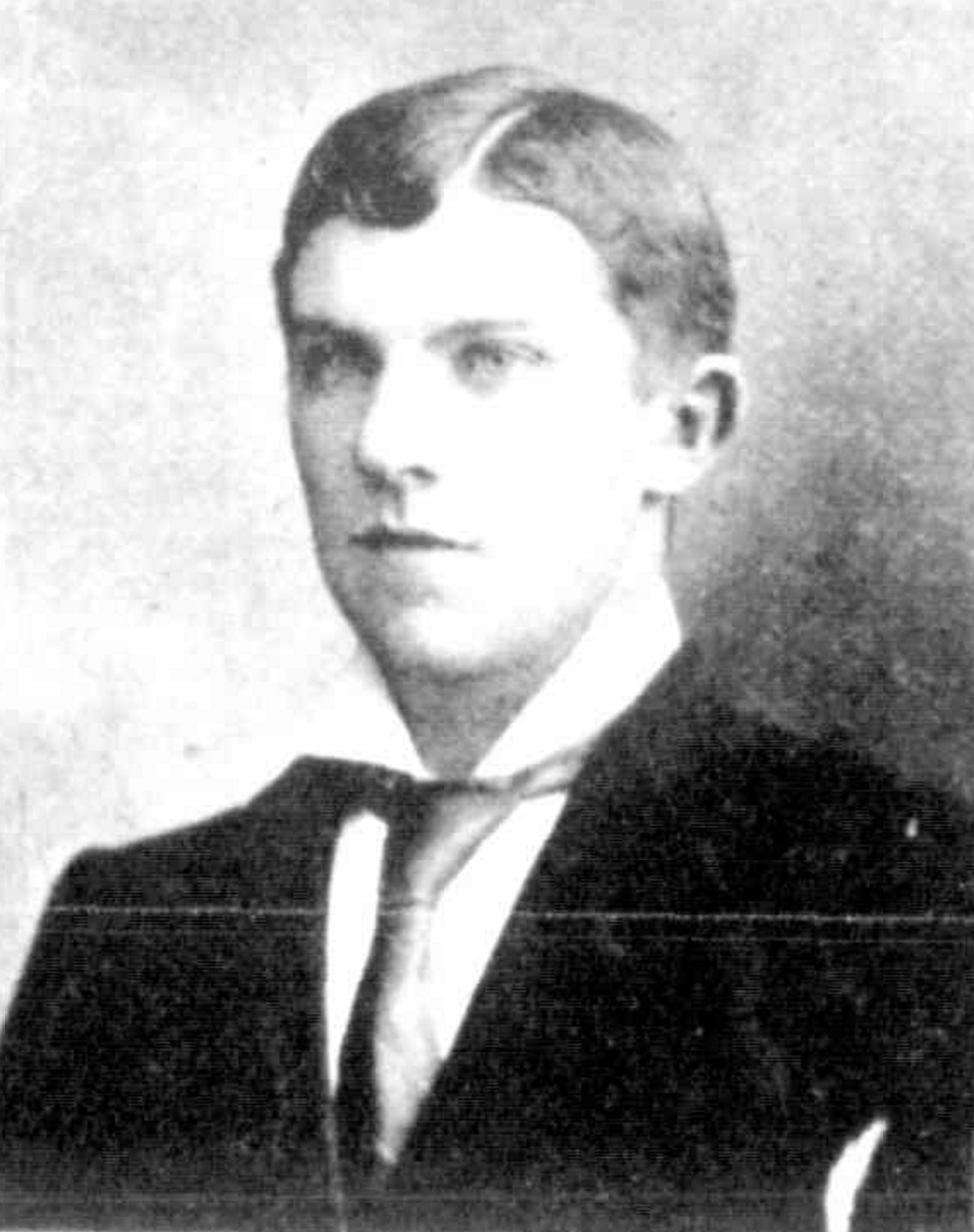 Portrait of Chris Kiernan published in Melbourne Punch with portraits of several dozen other Victorian Football League players.